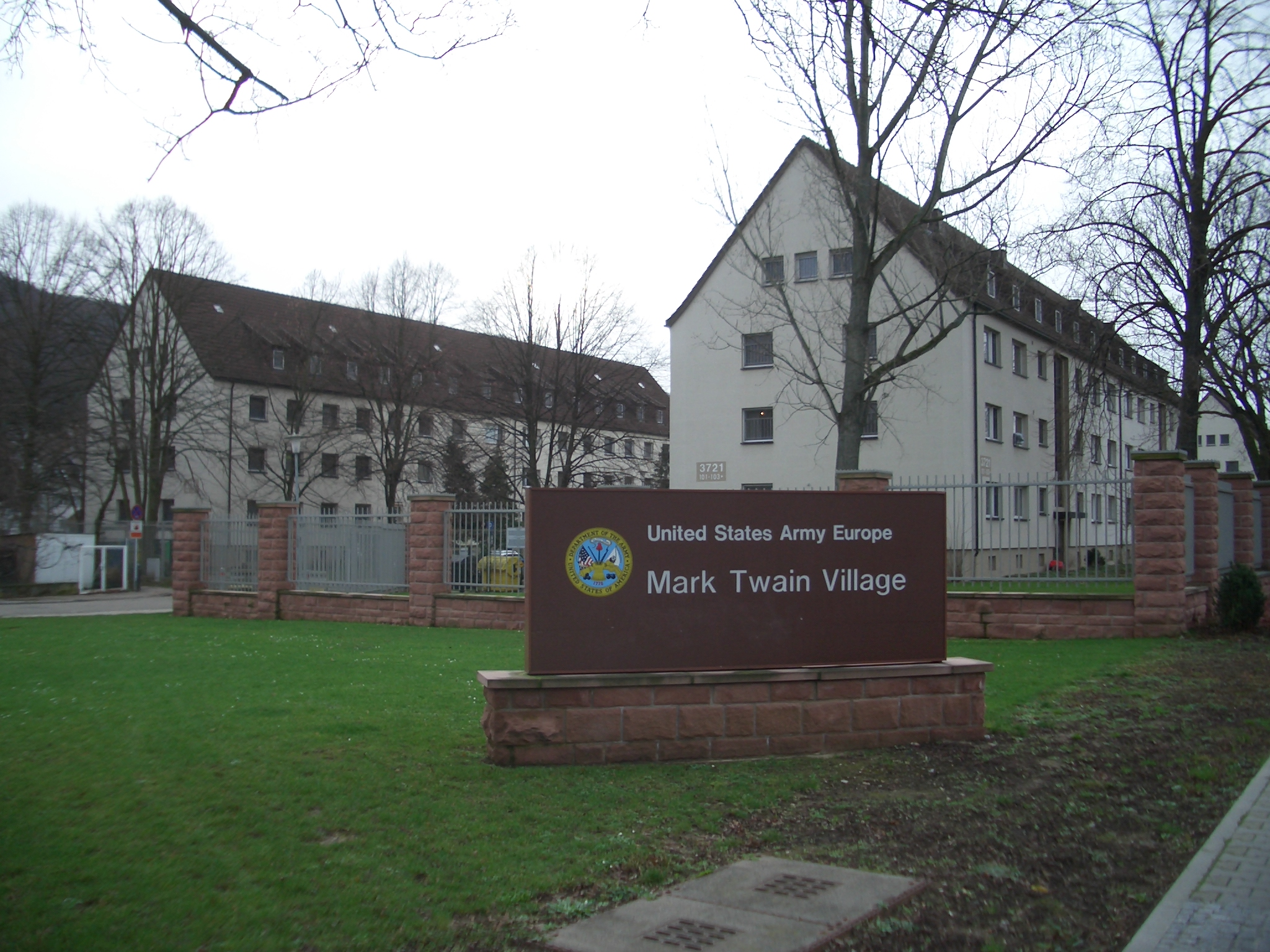 Photo of the Mark Twain Village in Heidelberg